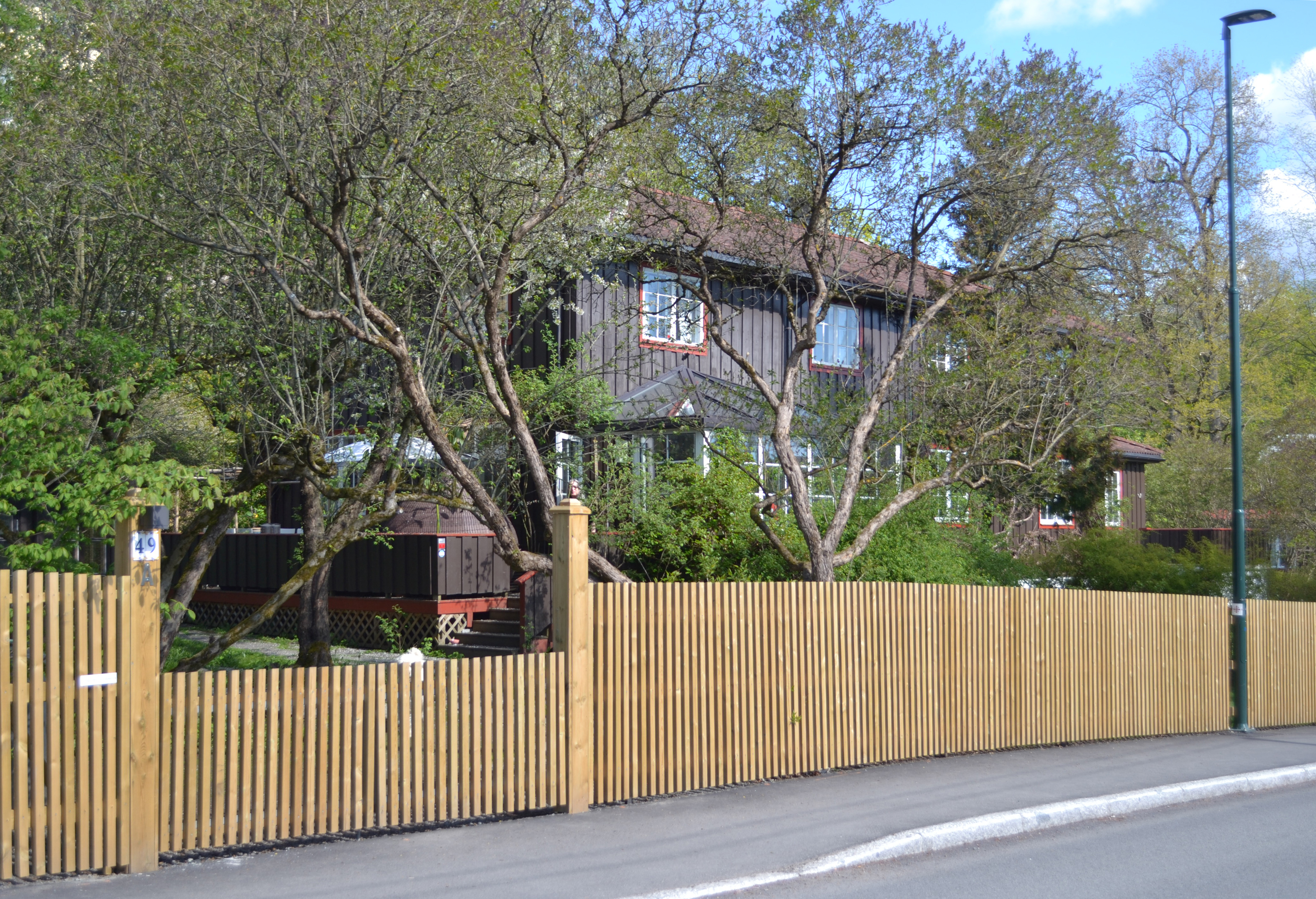 Home of Sverre Riisnæs, a prominent member of the fascist Nasjonal Samling government during the German occupation of Norway.